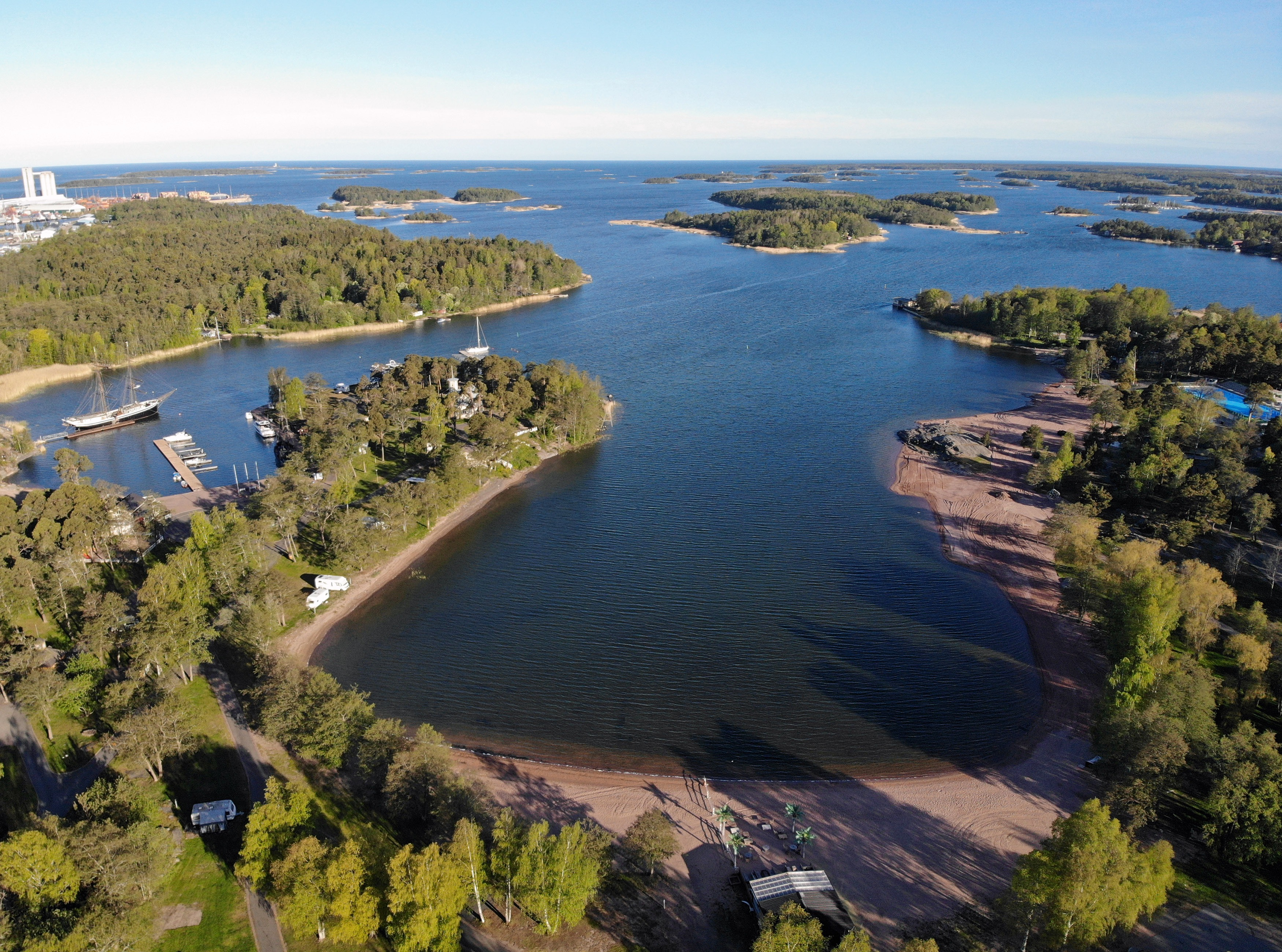 Otanlahti, Rauma.